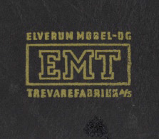 A third kind of signature at EMT from Olav Haug